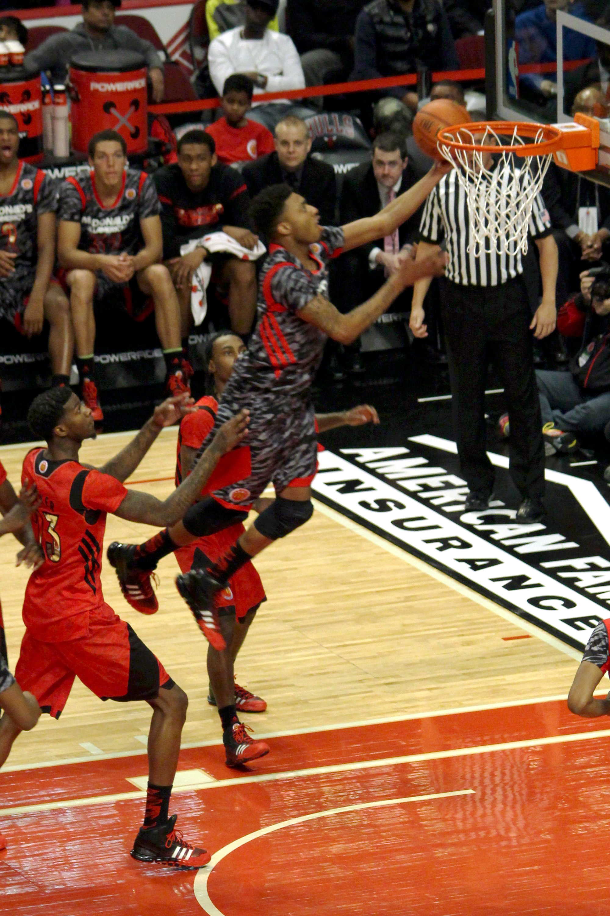 James Young slashing layup in front of Chris Walker (#23) at the w:2013 McDonald's All-American Boys Game